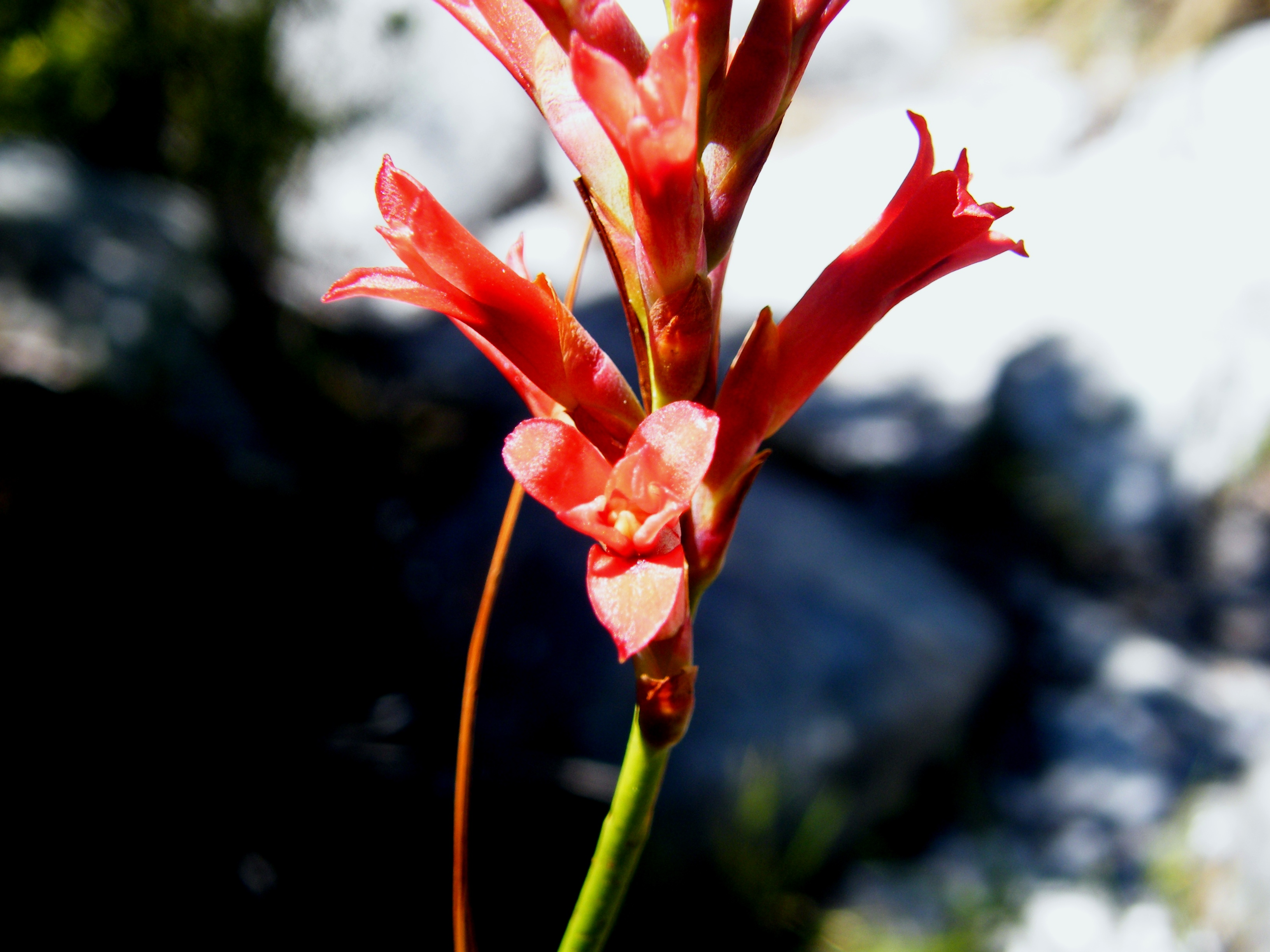 Tritoniopsis triticea